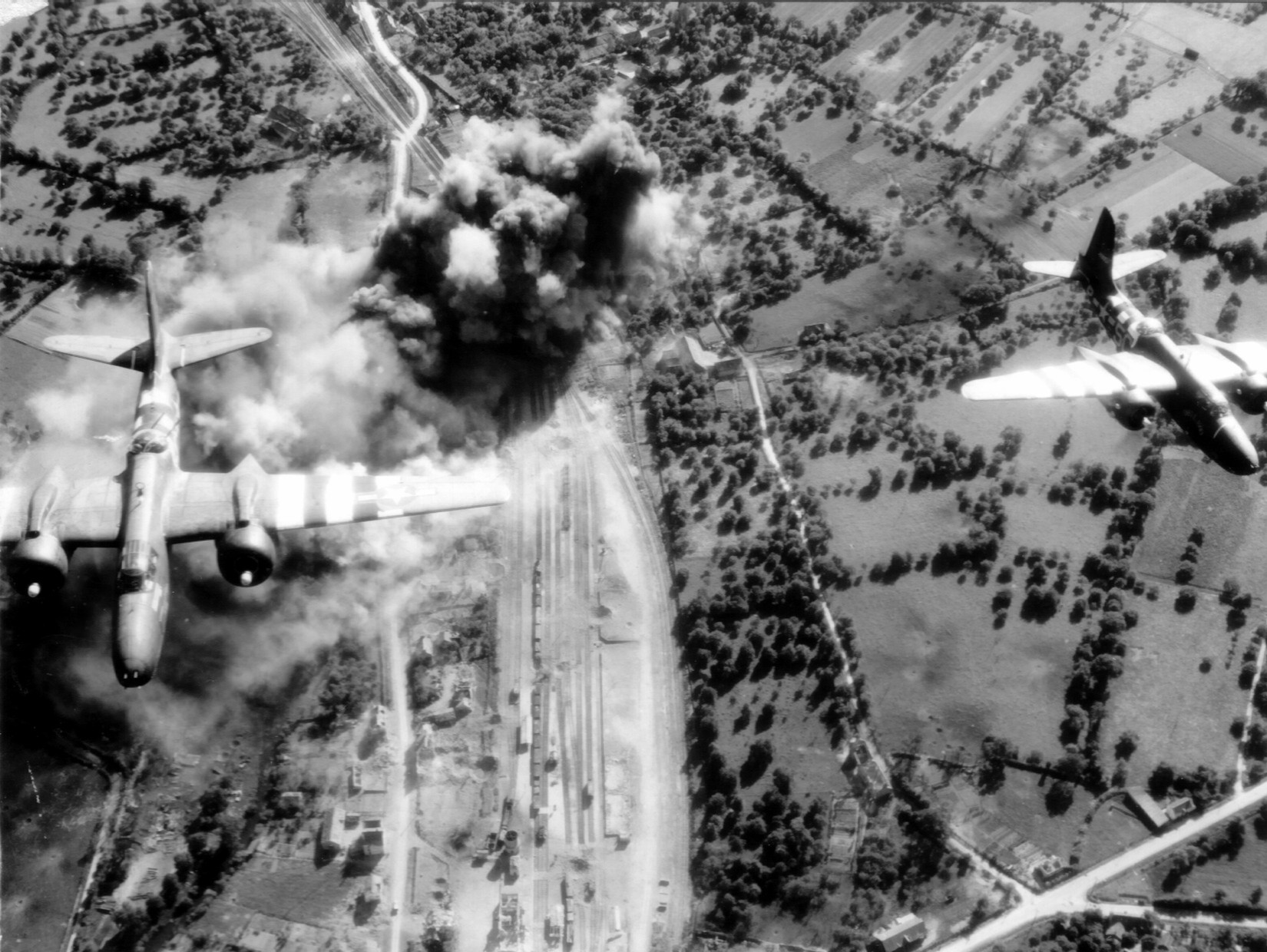 American bomber bombards the rail network of Domfront in order to prevent the Germans from supplying themselves with men and material.